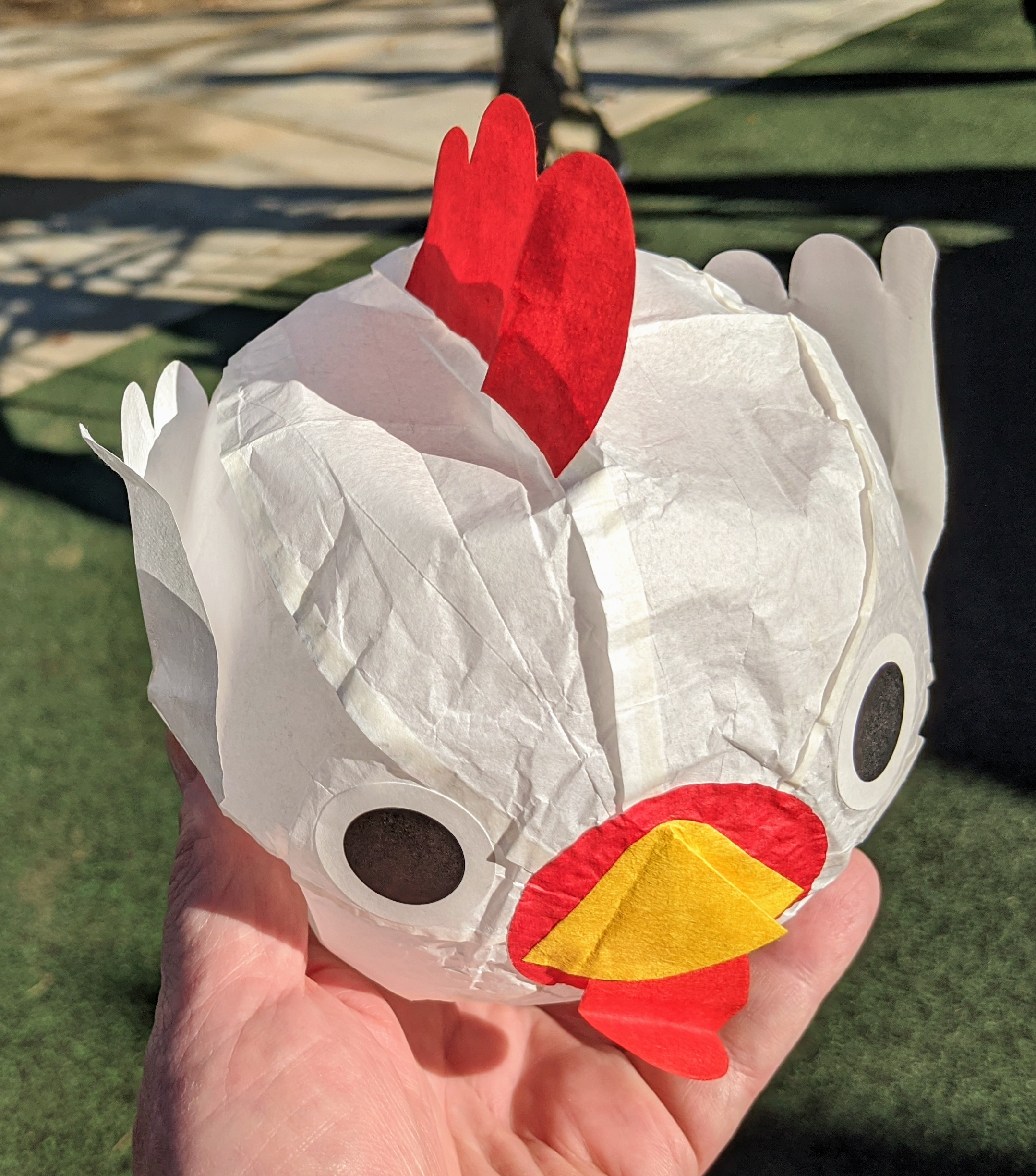 A kamifusen (paper balloon) decorated to look like a chicken. Photo by Jim Heaphy.